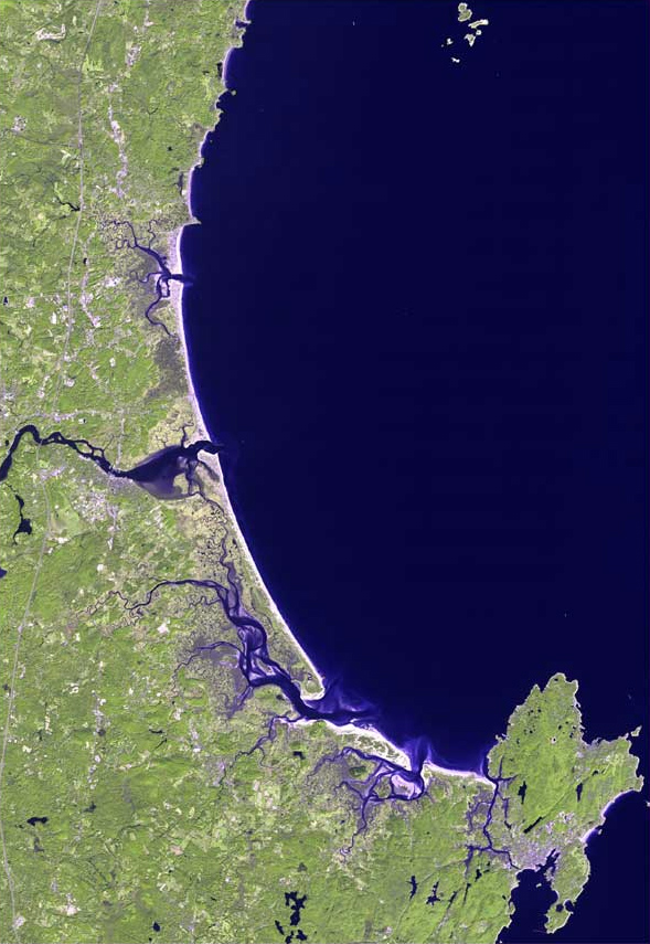 The raw satellite imagery shown in these images was obtain from NASA and/or the US Geological Survey. Post-processing and production by